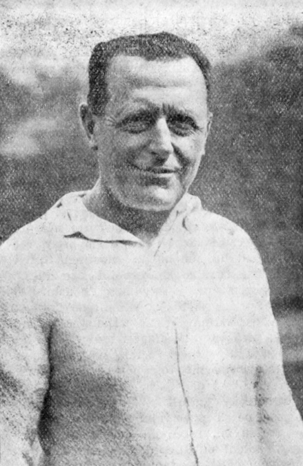 Claude Anet, born Jean Schopfer (1868—1931) was a French journalist, writer and tennis player.